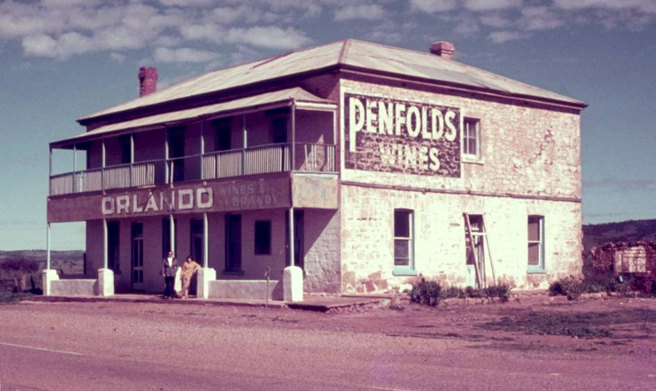 Yatina Hotel, Yatina, South Australia 1974 - Joan & Peter Woodard in the photo